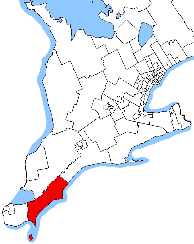 This is a map of southwestern Ontario showing the location of the Chatham-Kent—Leamington federal electoral district.